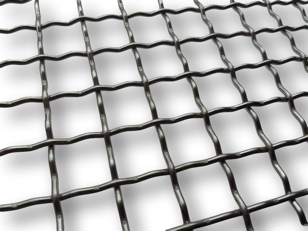 Photograph of a '2 mesh' woven from stainless steel and having an intermediate crimp.